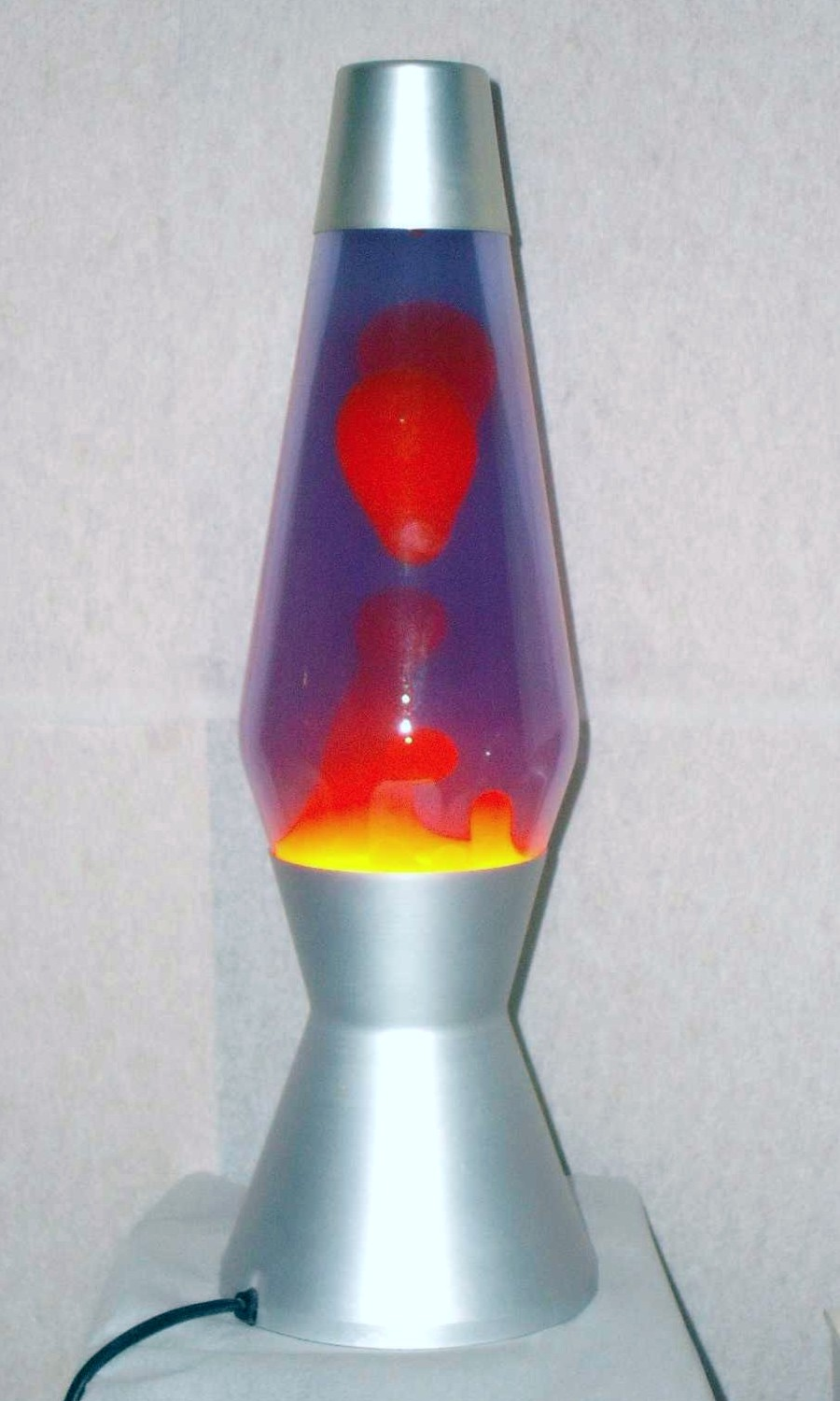 An original Mathmos lava lamp, model "Astro", as it was sold during the 1990ies. The depicted item is the most common version of that model, even though some details have changed over the years.